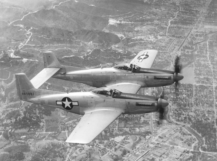 North American XP-82 "Twin Mustang" 44-83887 at Muroc Army Air Base, California. Official flight view of the "Twin Mustang", the Army Air Forces long-range fighter. Powered by two 12-cylinder Allison V-1710 engines, the P-82 is capable of a top speed of over 475 miles per hour. Rate of climb for the aircraft is over 5000 feet a minute. Standard armament is six .50 caliber machine guns, but the P-82 can also carry eight additional guns in a special center nacelle.